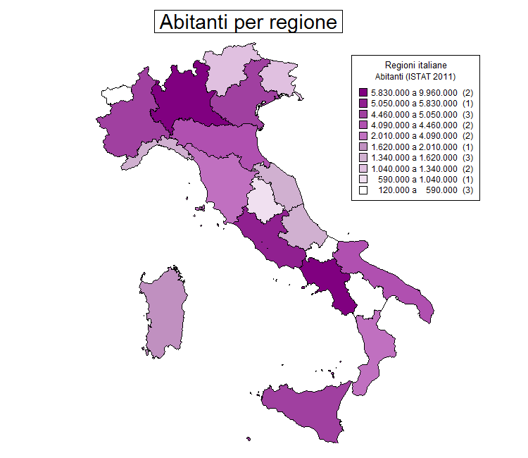 Population of the Italian regions - map (2011)